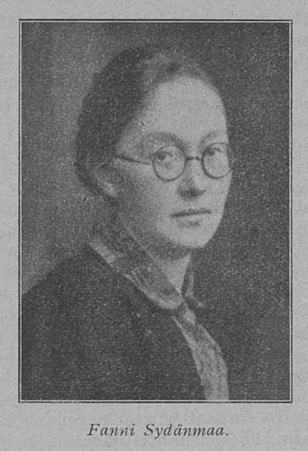 Finnish trade unionist and communist Fanny Sydänmaa (1891-1949) in the 1910s.